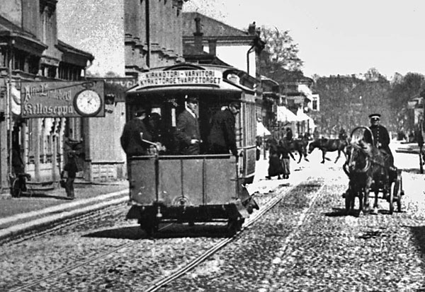 One of the few known pictures of the Turku tramway which worked with horse power.